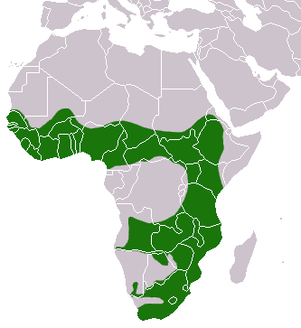 African Clawless Otter (Aonyx capensis) range